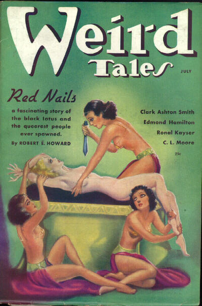 Cover of the pulp magazine Weird Tales (Jul 1936, vol. 28, no. 1) featuring Red Nails by Robert E. Howard. Cover art by Margaret Brundage.